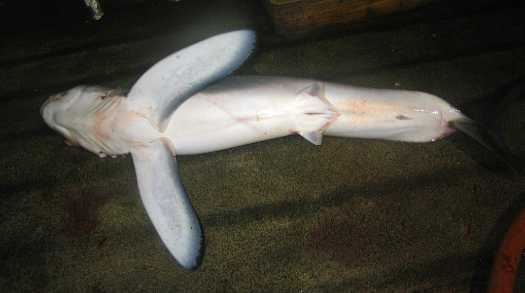 Ventral view of a longfin mako (Isurus paucus)